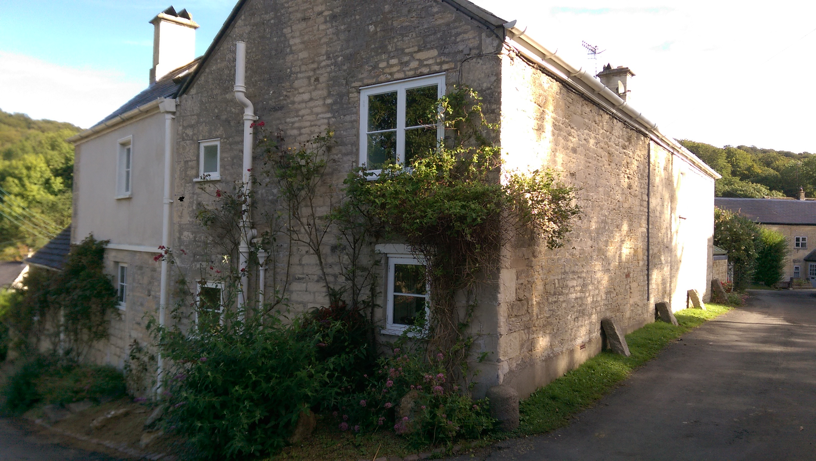 Midwinter (AKA Midwinter Cottage), Cranham, Glos. Gustav Holst is said to have written the tune "Cranham" for Christina Rosetti's carol In the Bleak Midwinter in this house.